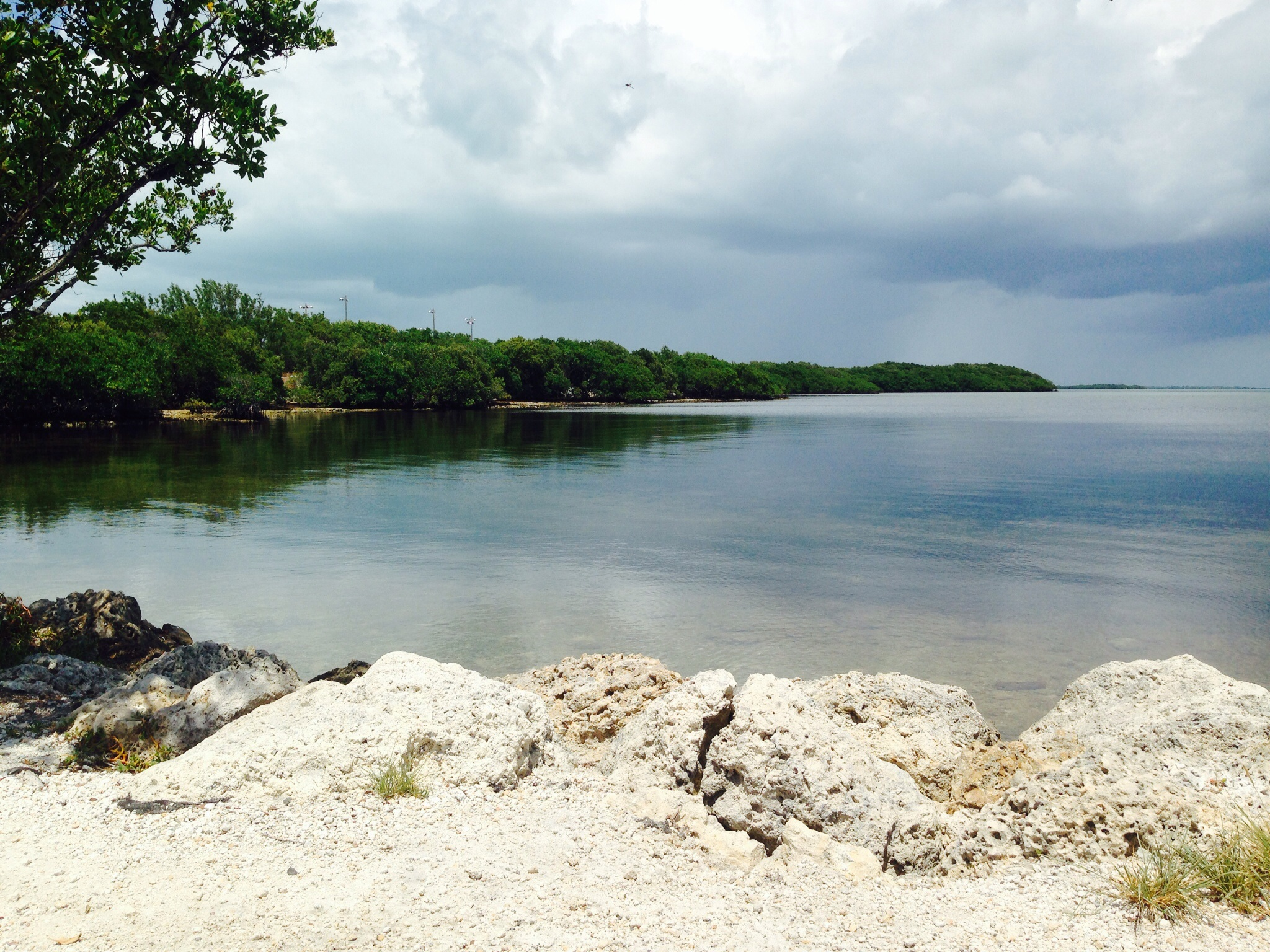 Key Largo, FL 33037, USA